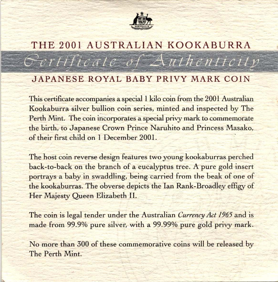 Coin 30$ AUSTRALIA 2001 1 KILO CERTIFICATE